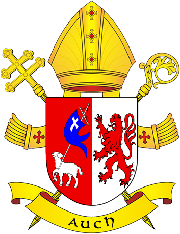 Coat of arms of archdiocese of Auch in France.